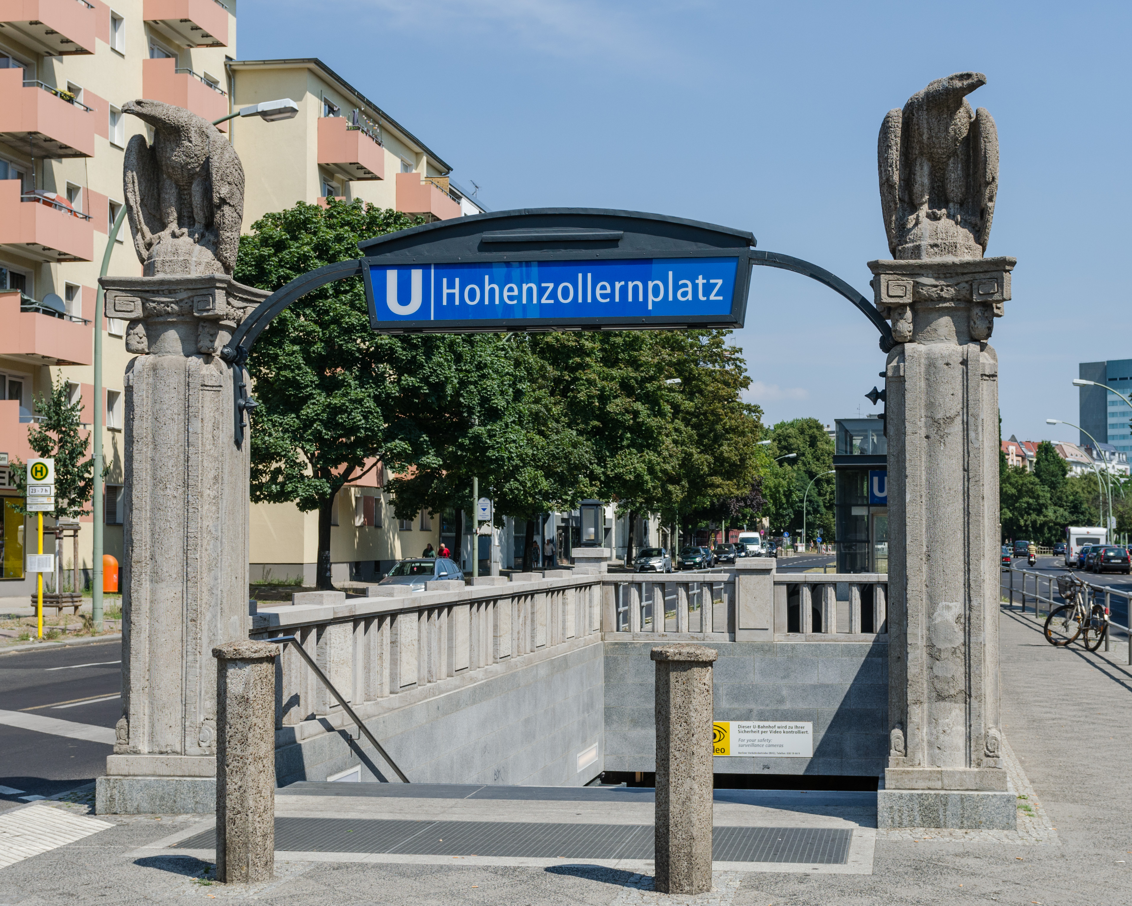 One of the entries of the Berlin subway station Hohenzollernplatz in Berlin-Wilmersdorf